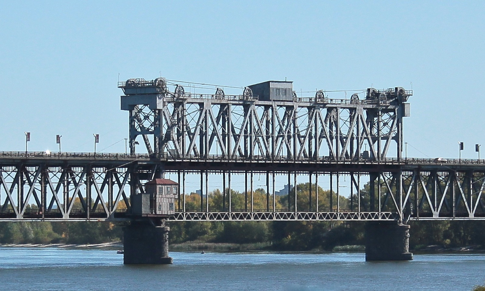 The lift span of the bridge over the Dnieper River in Kremenchuk, Ukraine. This is the west side of the bridge, viewed from a beach on the river's north bank. The double-deck bridge carries road traffic on its upper level and trains on its lower level. When a ship on the river needs higher clearance, the bridge's lower deck (only) can be raised ('telescoped' into the upper deck's girder structure) without affecting traffic on the upper deck.